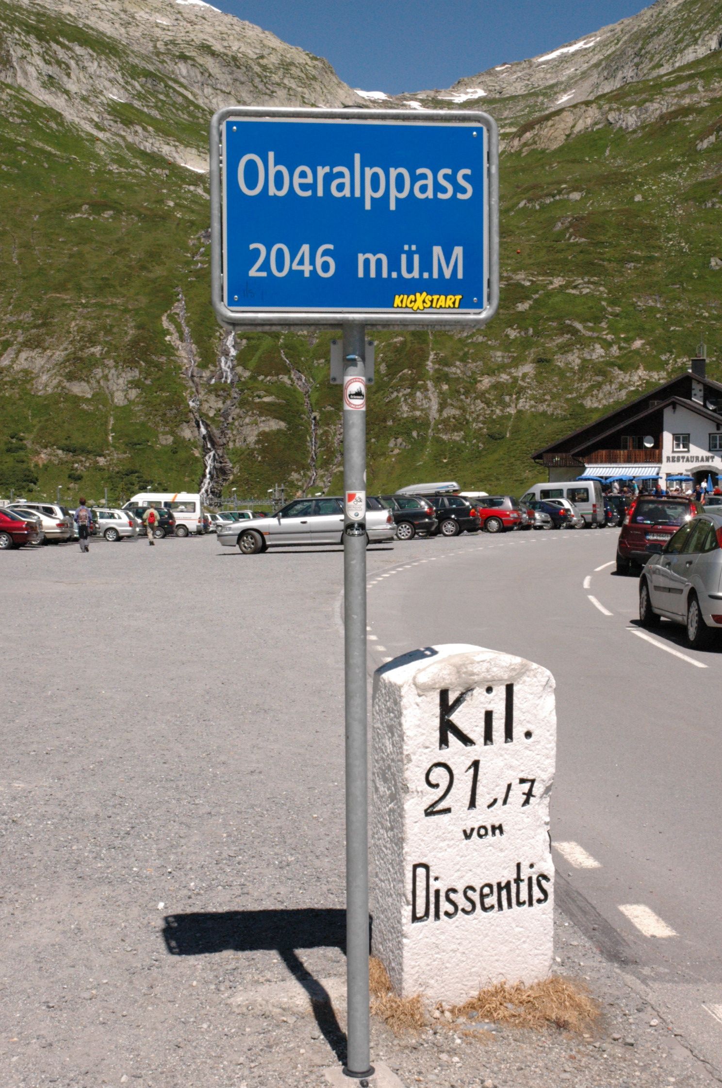 traffic board with elevation 2 feet higher than official map.